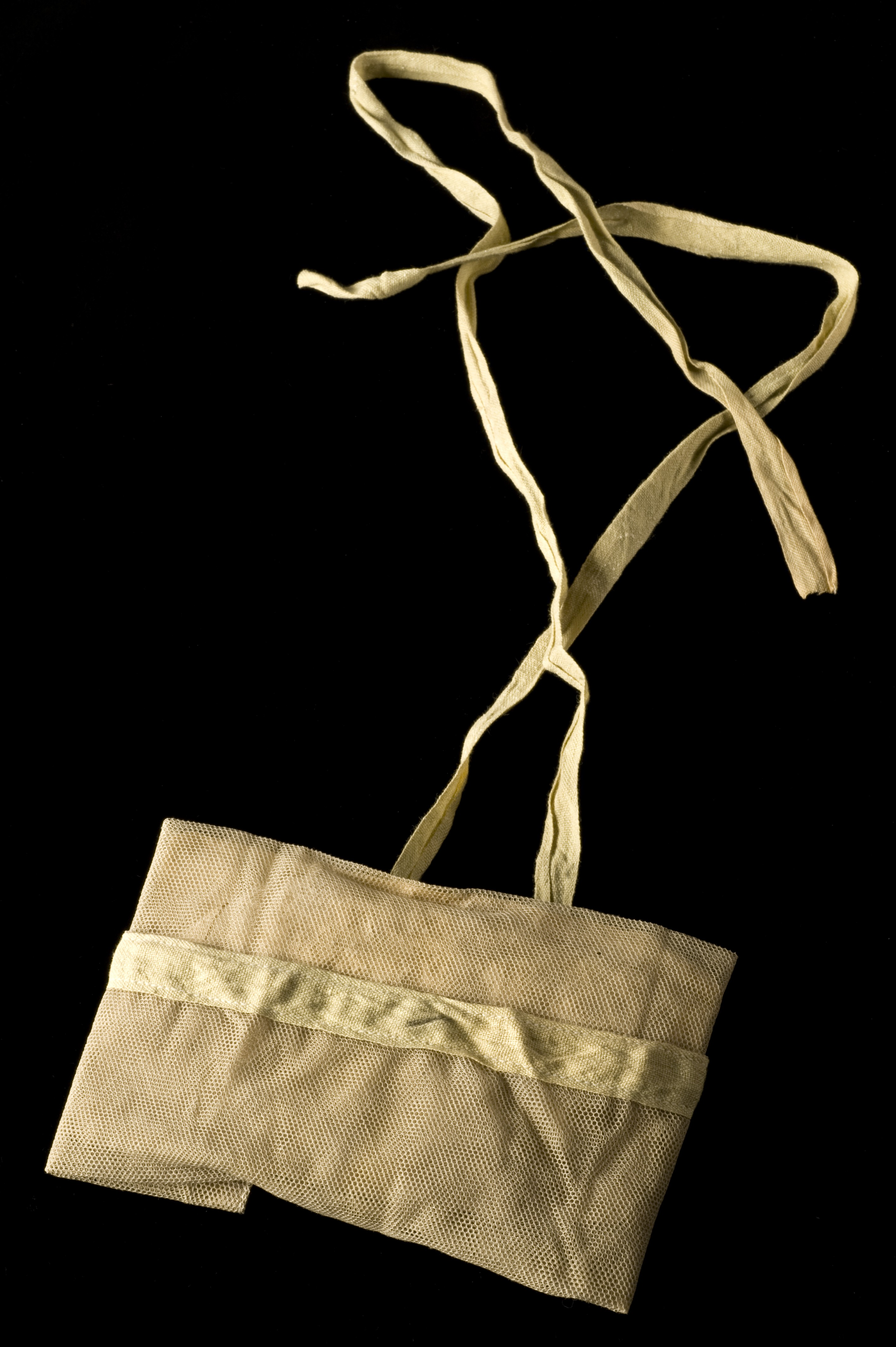 Gas mask, veil respirator type, Maw's Chemical Mask with instructions in carrying bag, by Maw, Son and Sons of London, 1915. Full view, black background. Wellcome Images